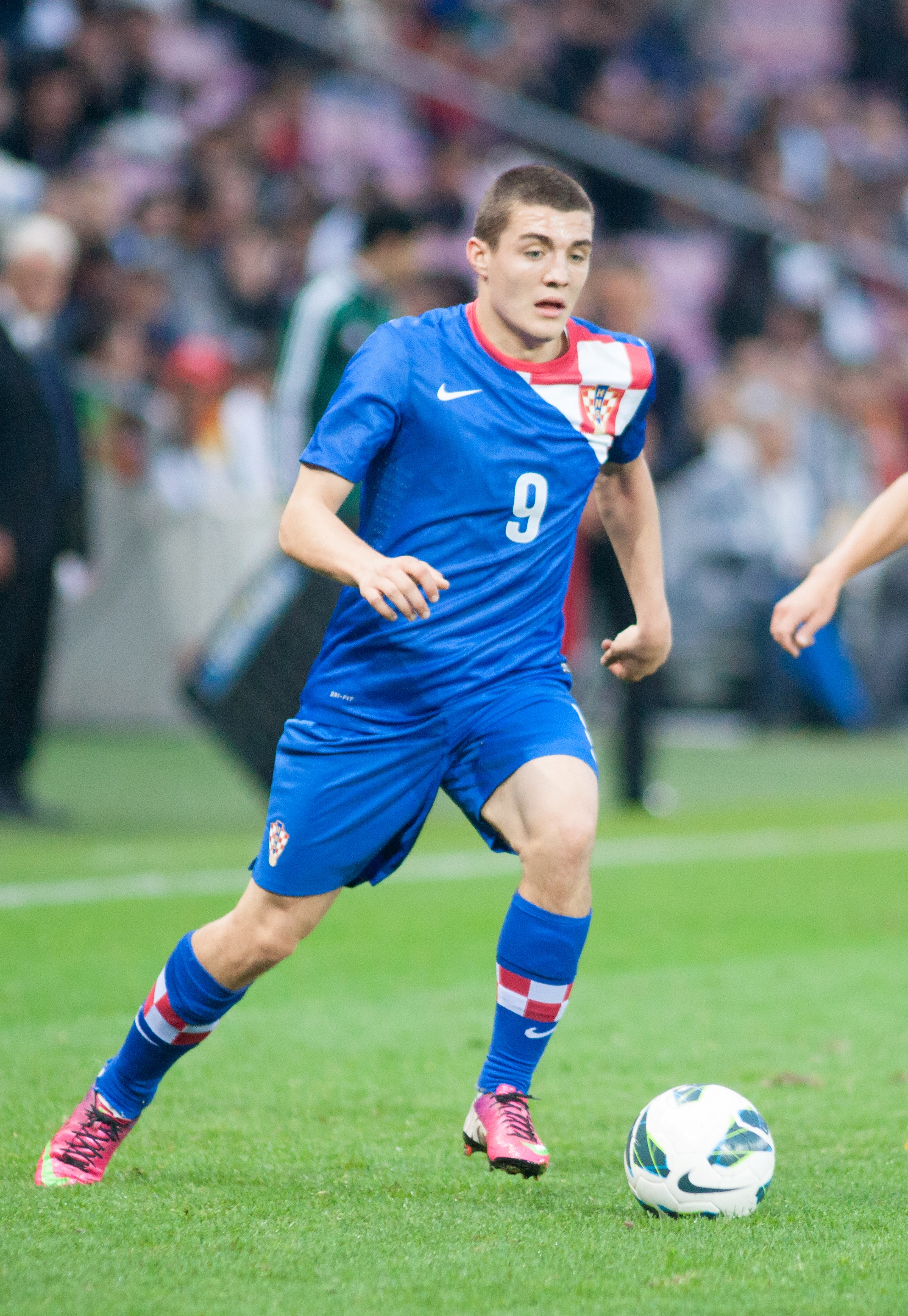 Mateo Kovacic - Croatia vs. Portugal, 10th June 2013-2(cropped).jpg